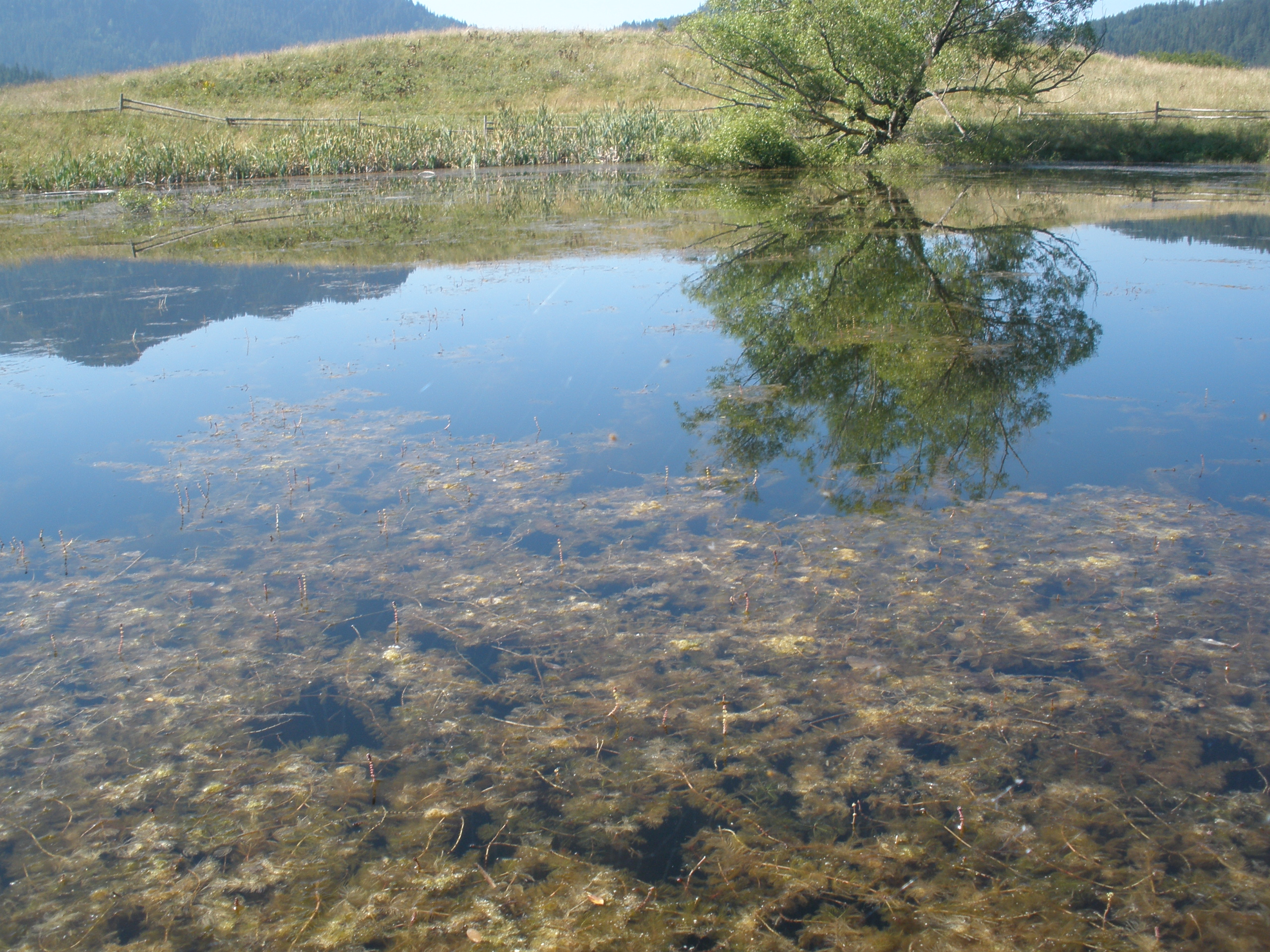 Chairski lakes Rhodope Mountains